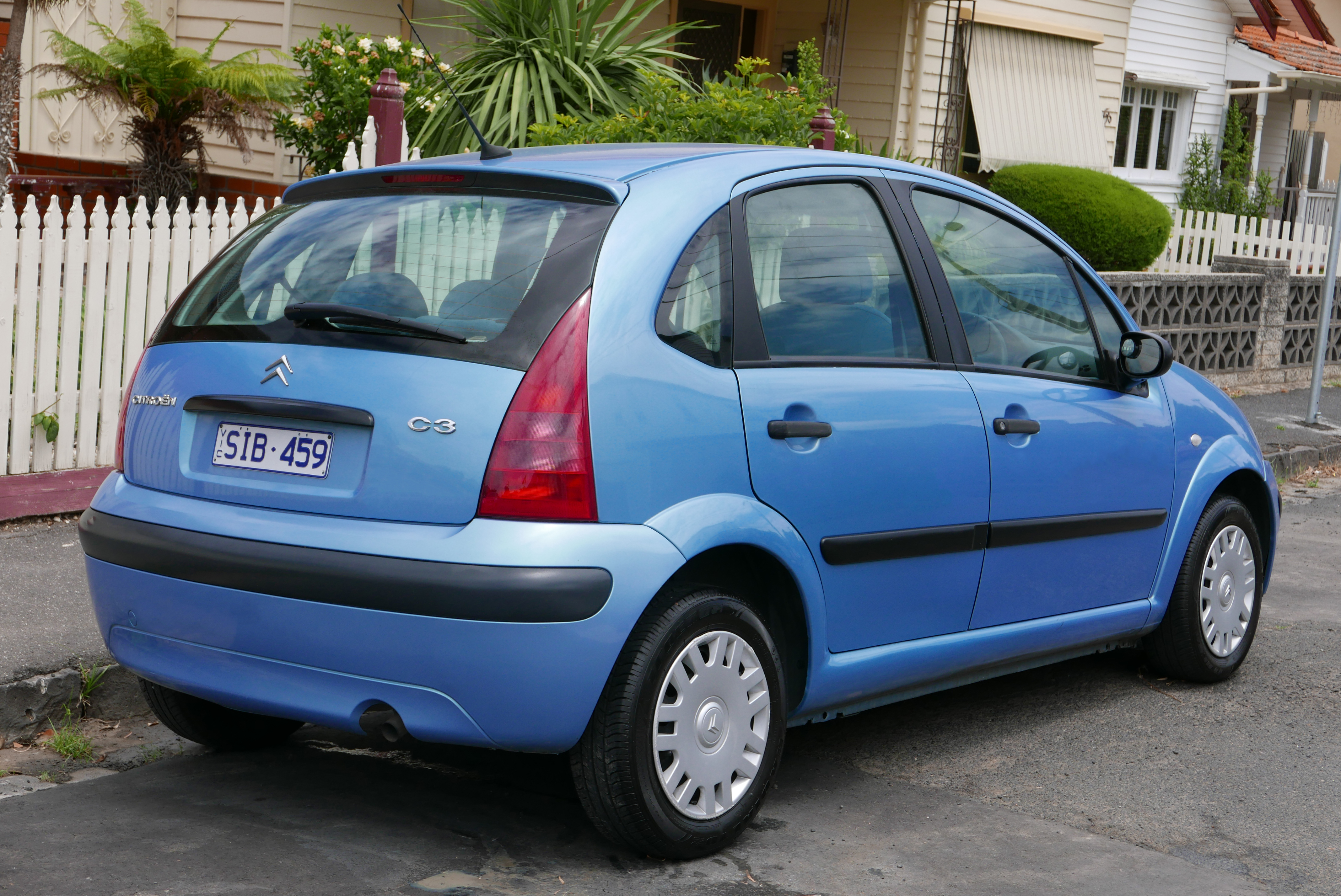 2003 Citroën C3 Exclusive hatchback. Photographed in Brunswick, Victoria, Australia. Vehicle registration enquiry results Jurisdiction Victoria Registration SIB459 Chassis code VF7FCKFVB26599615 Engine code 10FS634245538 Compliance date 2003-03 Year of manufacture 2003